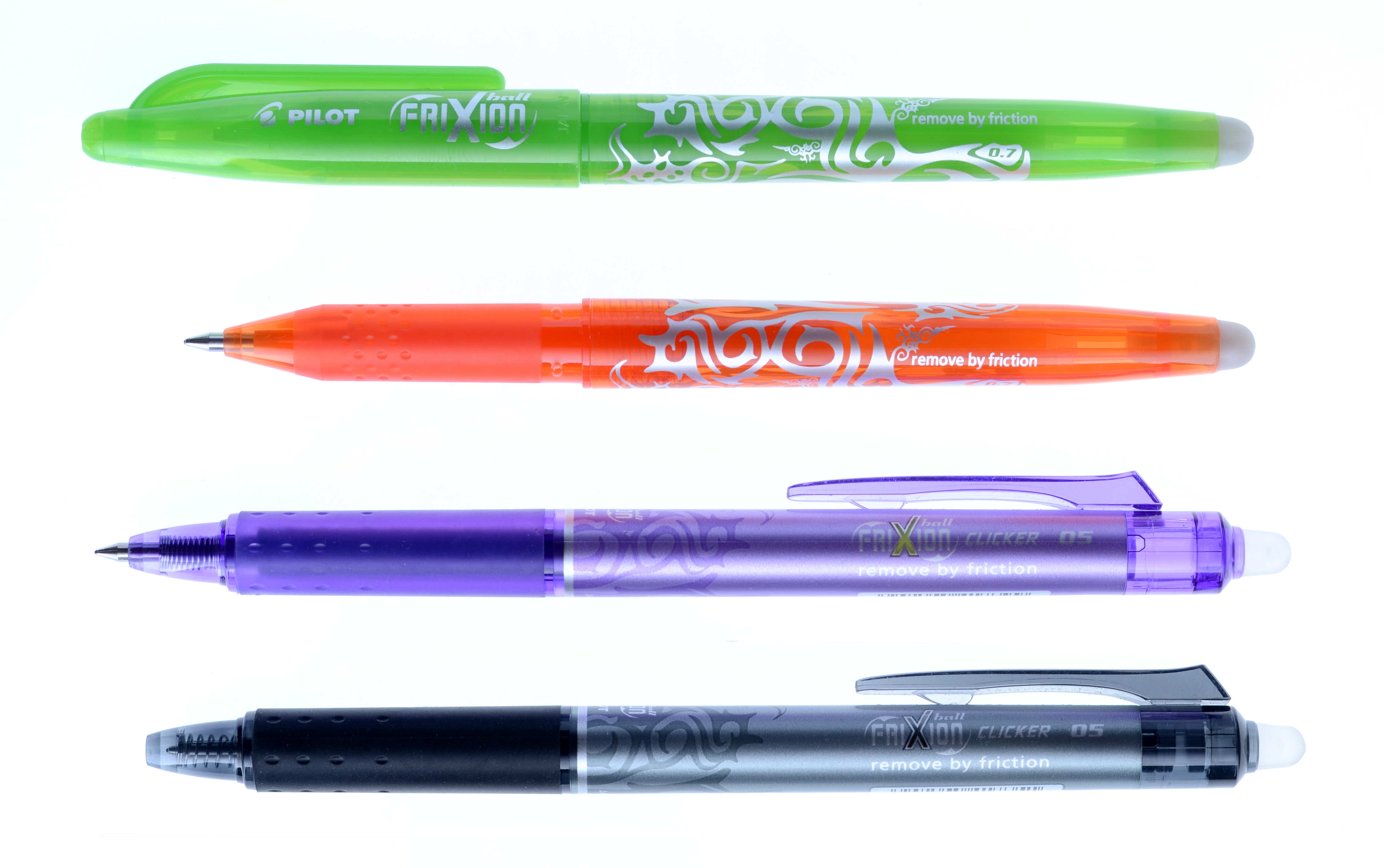 Two different types of Pilot Frixion pens by Pilot (pen company)